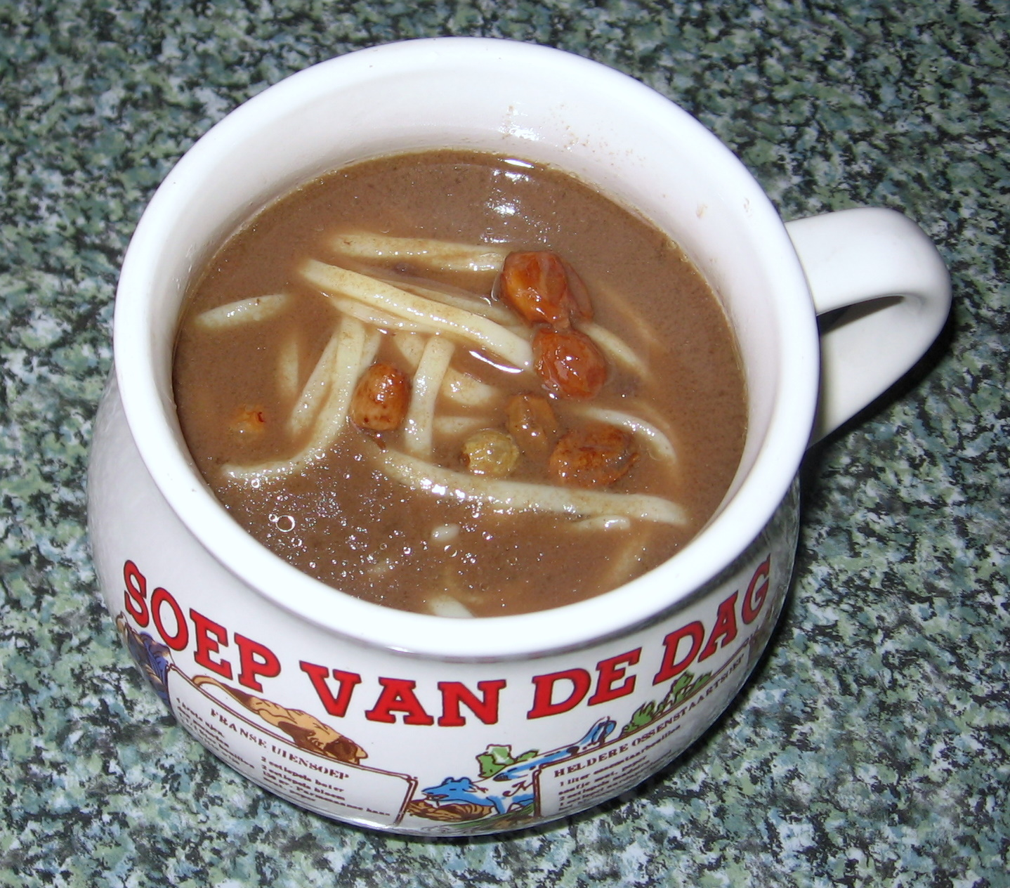 Polish soup czernina of duck's blood in Dutch cup